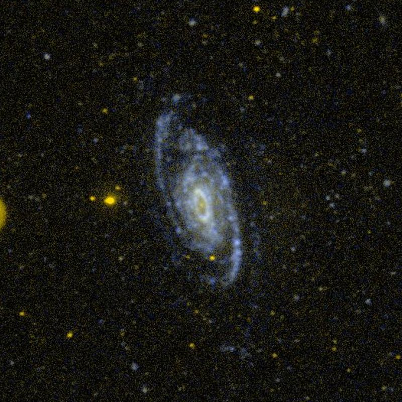 NGC 7531 galaxy by GALEX